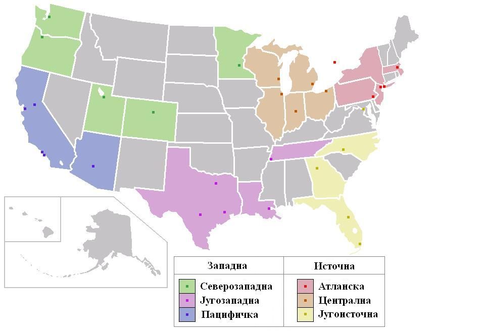 A map of all divisions and conferences in the american basketball league NBA - the original file had a GNU Free Documentation Licence